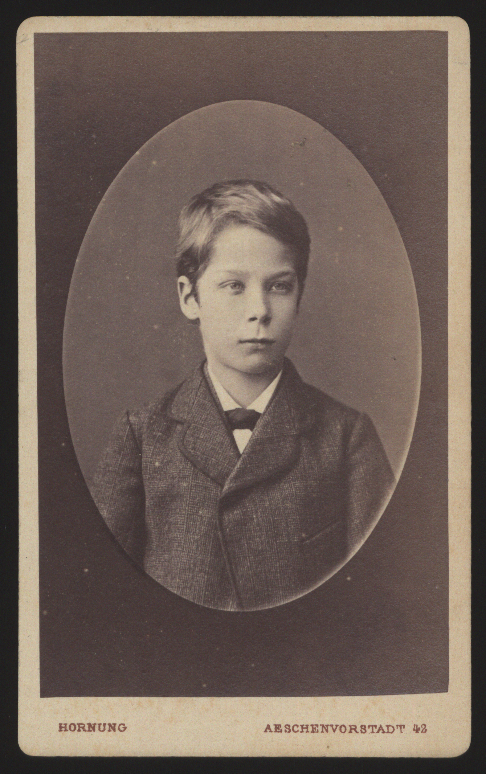 Portrait of Eberhard Vischer (1865-1946), photo